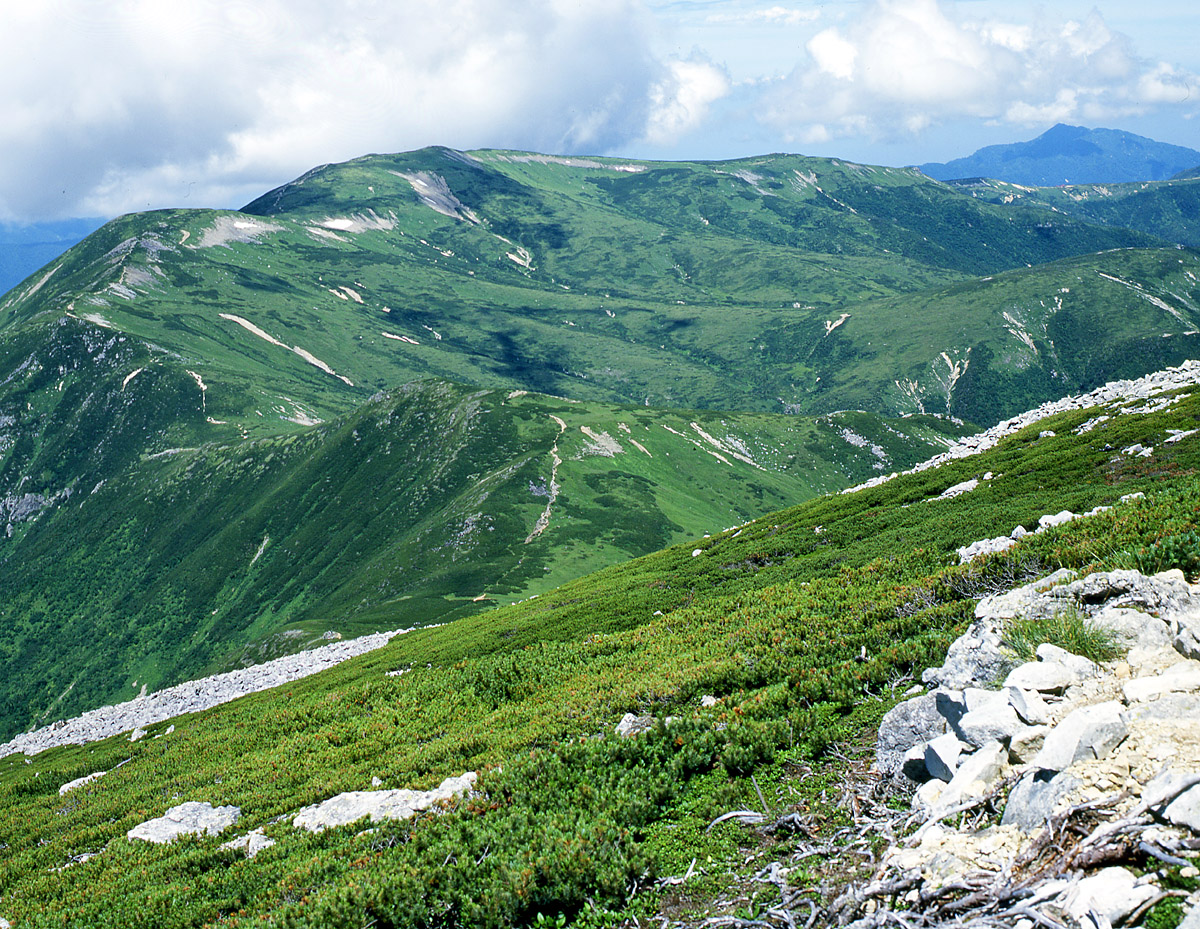 Mount Kitanomata seen from the southeast. Taken from Mount Kurobegoro.